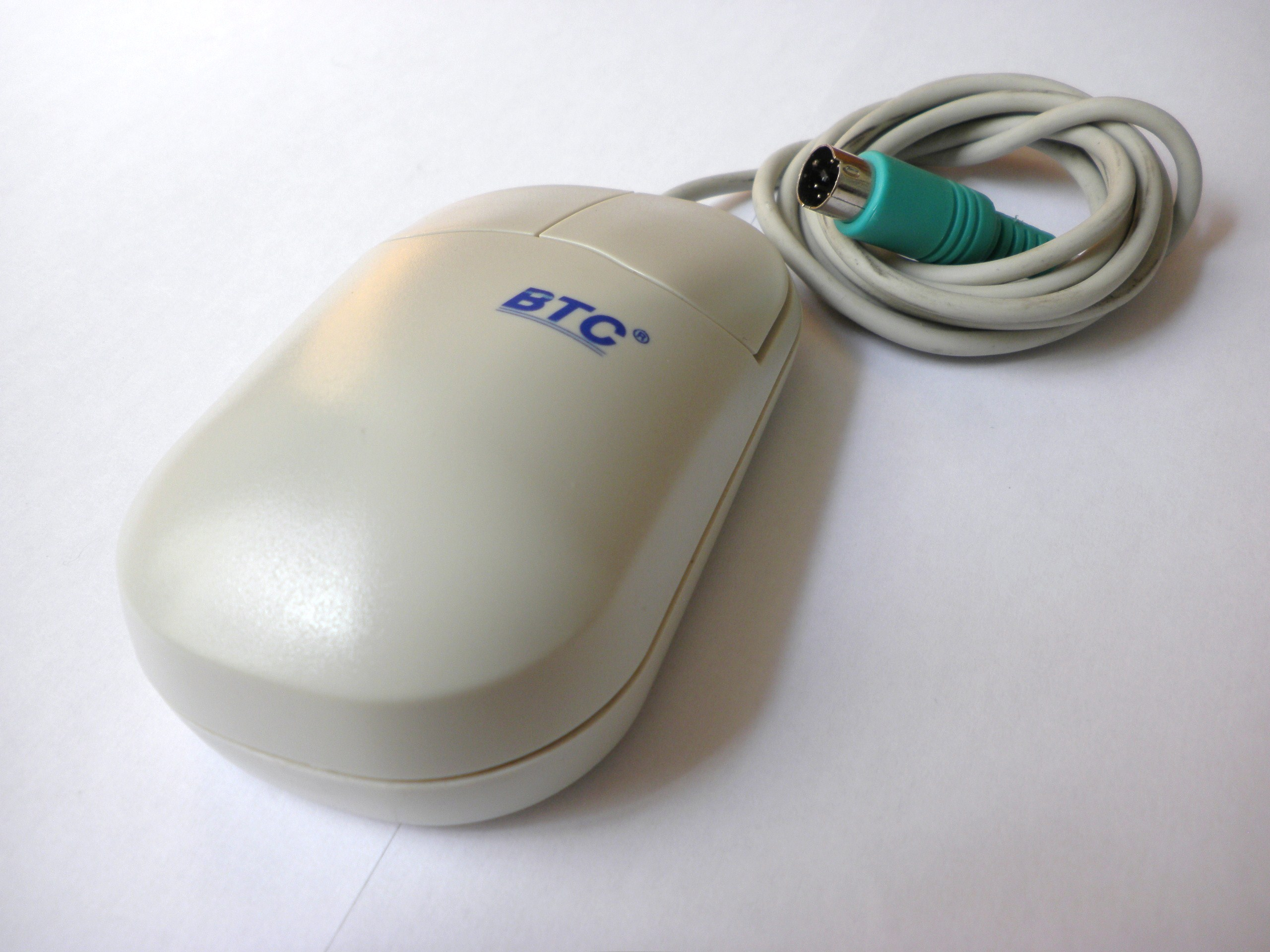 A BTC mouse